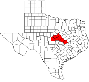 Map of Texas highlighting counties served by the Central Texas Council of Governments; created by User:Acntx.